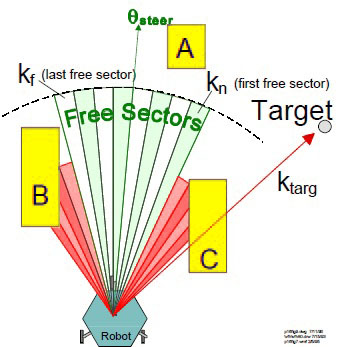 Example of VFH algoritm